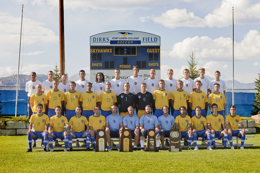 The 2011 NCAA Division II national champion Skyhawks men's soccer team. I am the copyright holder of this work, and publish it under Creative Commons licensing. The copyright holder of this file allows anyone to use it for any purpose, provided that the copyright holder is properly attributed. Redistribution, derivative work, commercial use, and all other use is permitted.